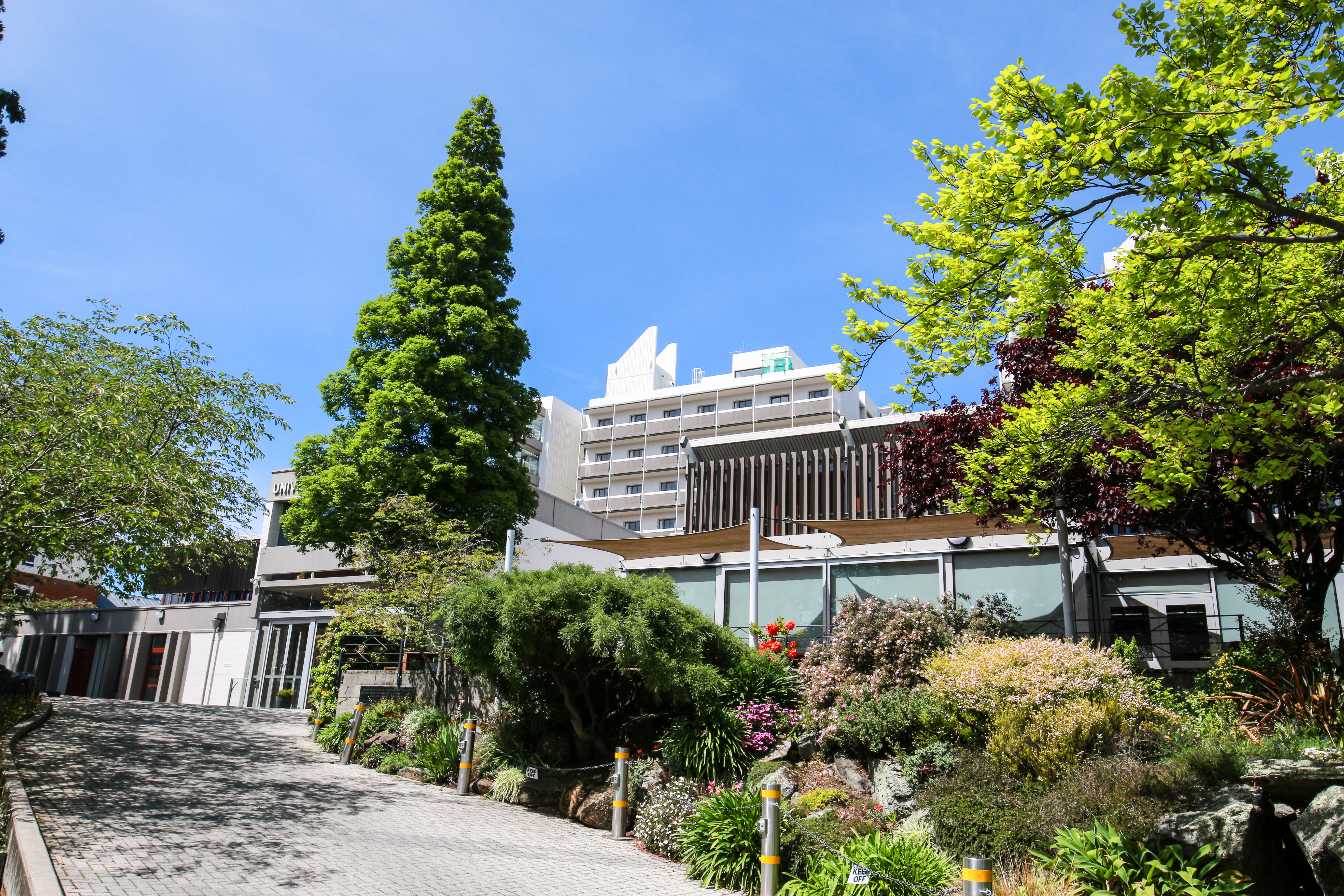 Main Driveway and refectory. North tower in back.